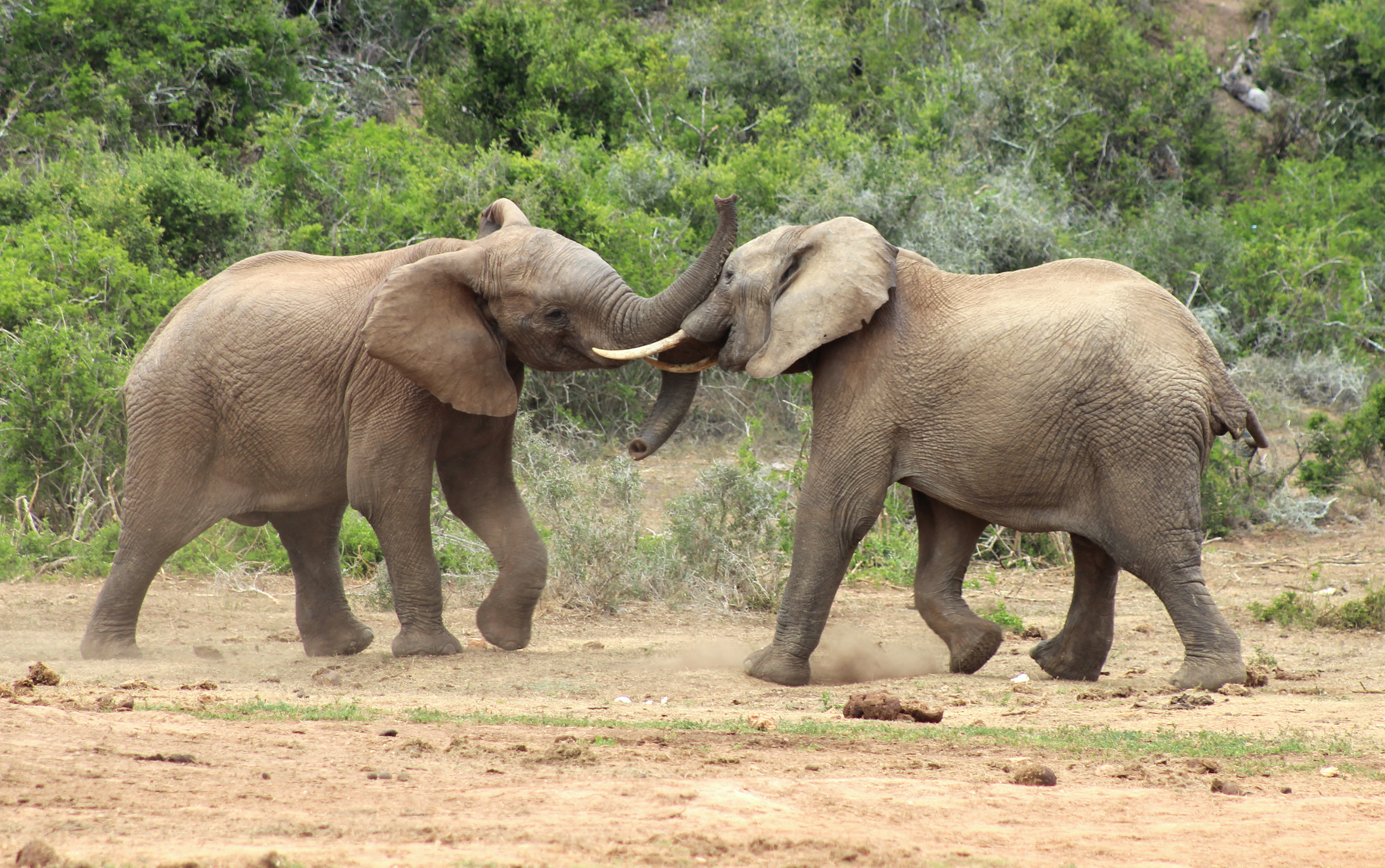 Two african elephants (loxodonta africana) trunk wrestling in the Addo Elephant National Reserve.